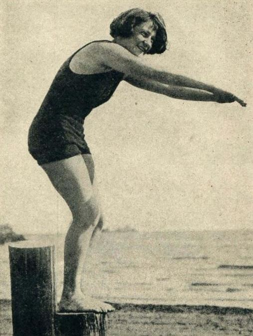 American swimmer Helen Wainwright, on page 15 of the August 1922 Hot Dog.